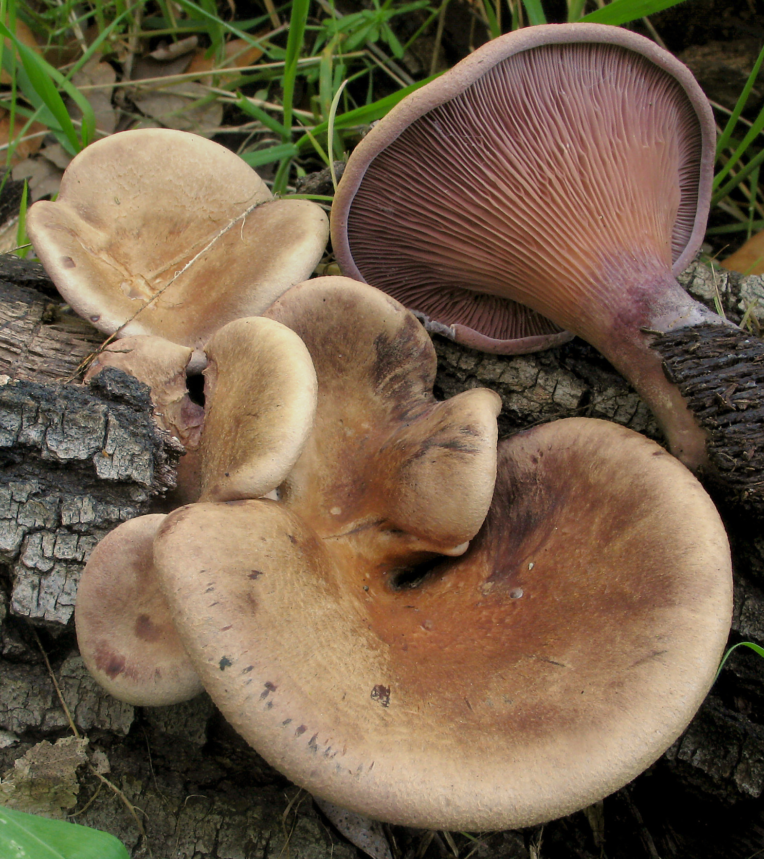 Panus conchatus (Bull.) Fr. Image location: Fair Oaks, California, USA On an oak log. Recognized by sight For more information about this, see the observation page at Mushroom Observer.